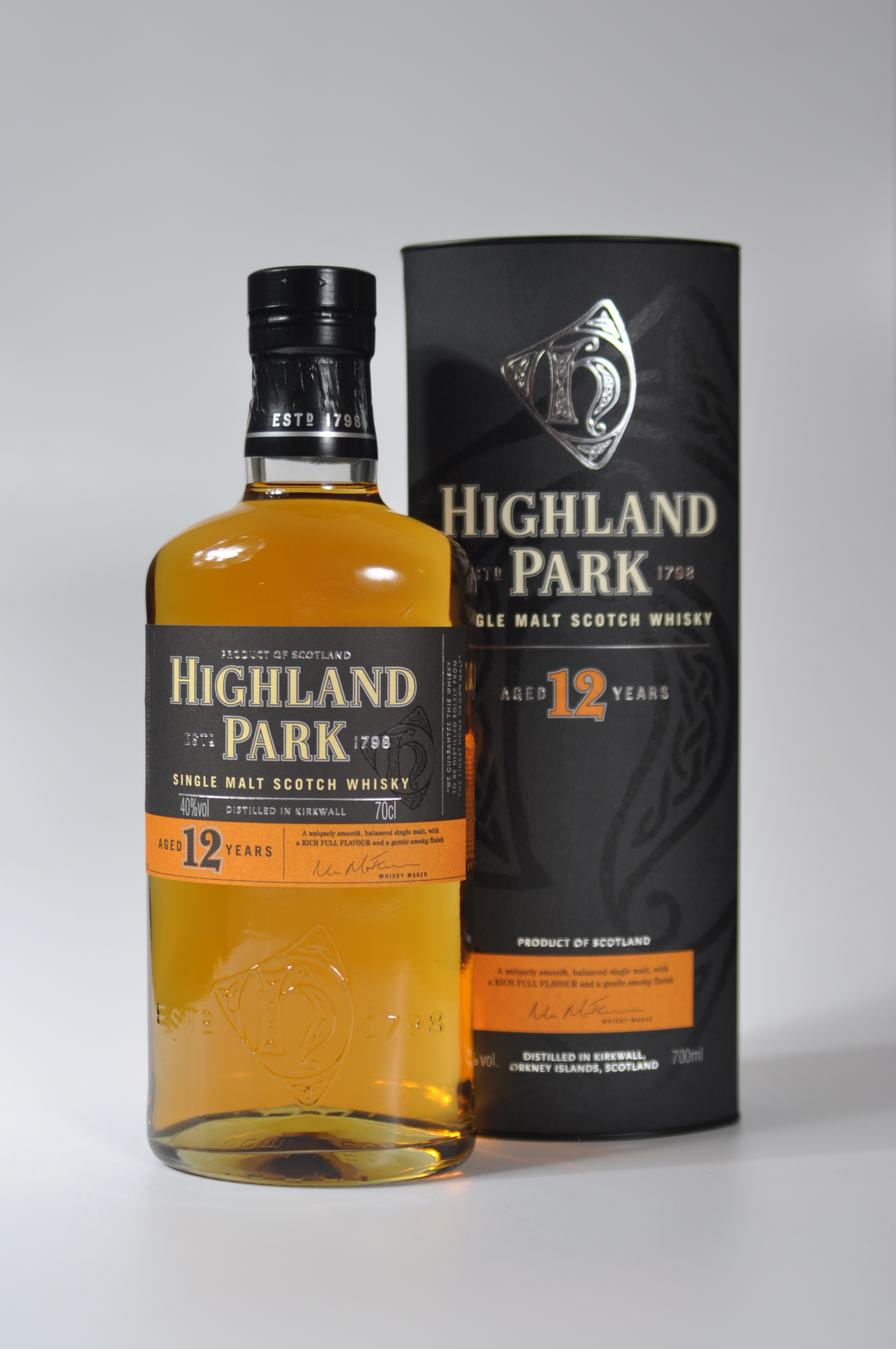 Highland Park single malt, aged 12 years